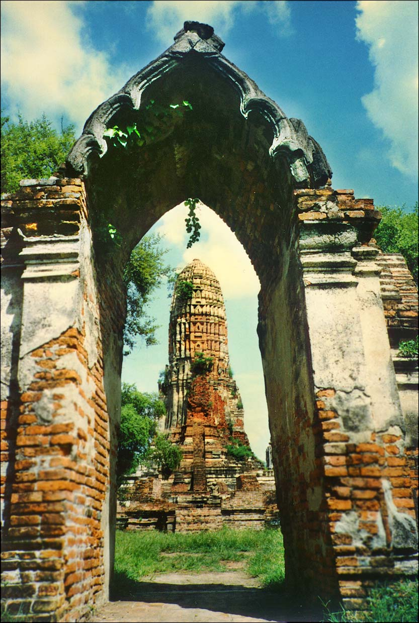 Gateway portal and Prang - at Wat Phra Ram, Ayutthaya, Thailand.